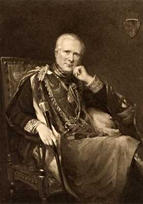 A photograph taken of the frontispiece of the sixth edition (1839 edition) of "A Genealogical and Heraldic Dictionary of the Peerage and Baronetage of the British Empire" (renamed as "Burke's Peerage and Baronatage" in more recent editions) produced by John Burke. The frontispiece itself is a portrait of Sir John Bernard Burke, enrobed as Ulster King of Arms.